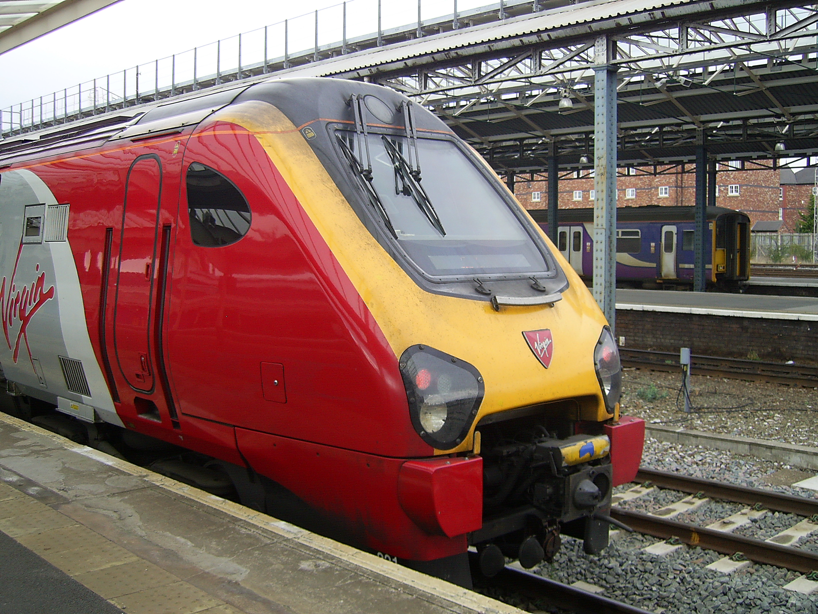 Class 221 105, SuperVoyager William Baffin at Chester with a service to London Euston.